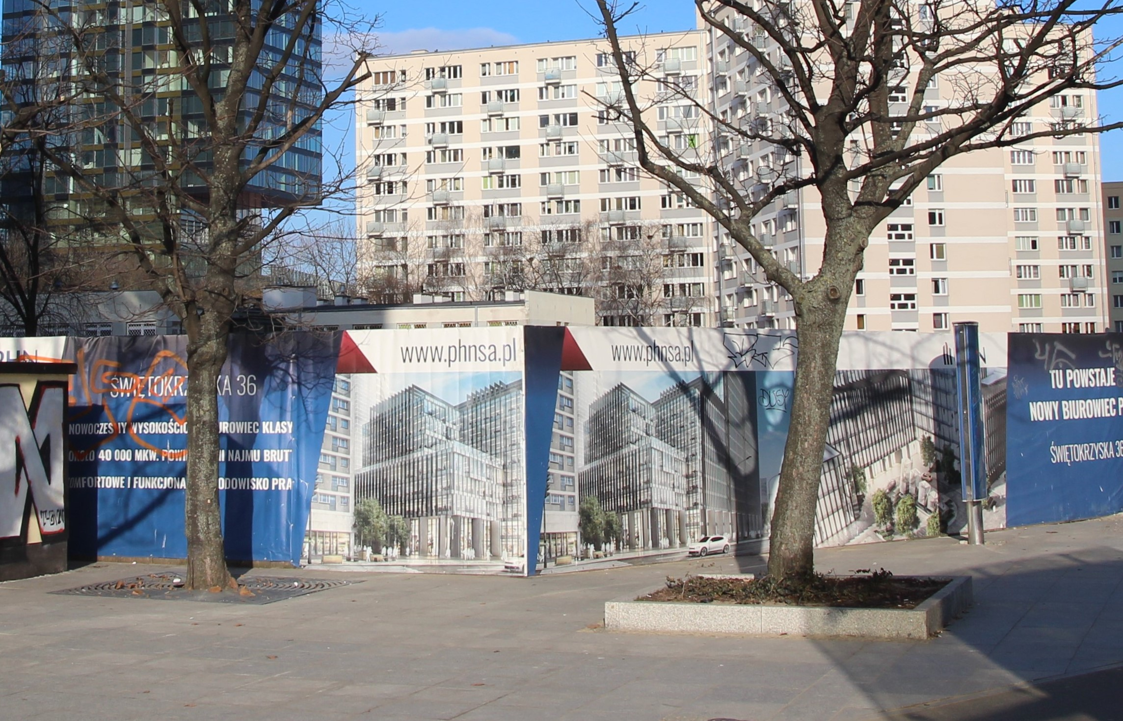 PHN Tower, Warsaw, construction ground